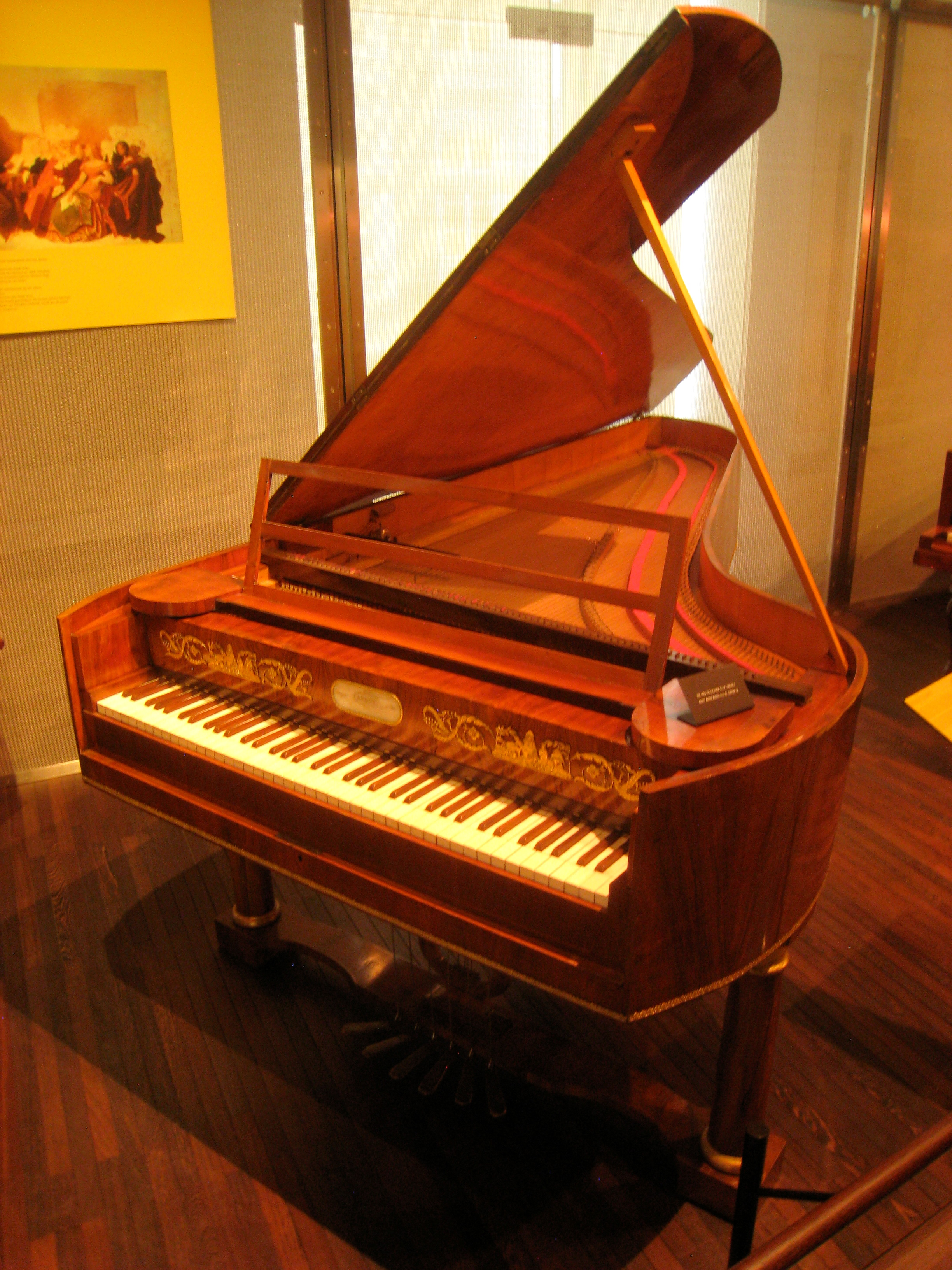 Piano collection in the Musical Instrument Museum, Brussels, Belgium. Joseph Angst, Vienna, ca. 1825.